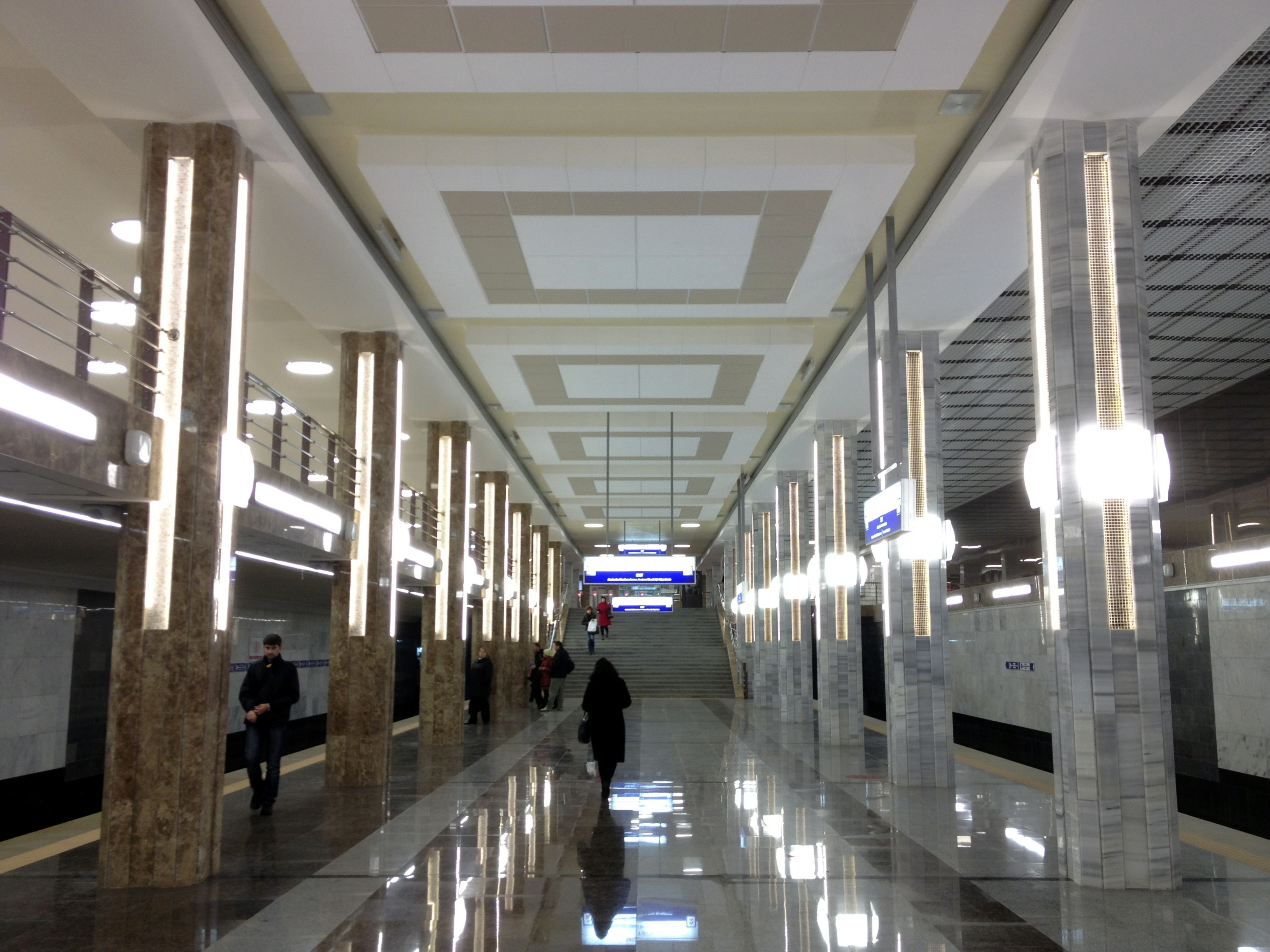 The Kiev metro's Ipodrom station